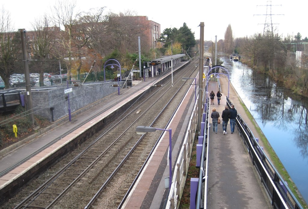 Bournville railway station, Birmingham Opened in 1876 by the Midland Railway on the Birmingham West Suburban Railway from Birmingham New Street to Bromsgrove. View north towards Selly Oak and Birmingham.